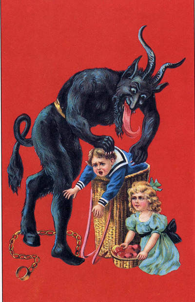 Krampus